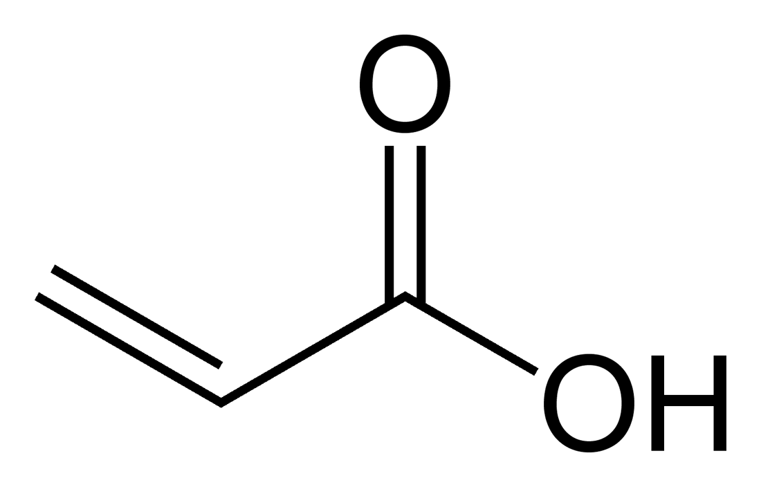 Skeletal formula of acrylic acid. For details on conformation, see: S.W. Charles, F.C. Cullen, N.L. Owen and G.A. Williams J. Mol. Struct. 157 (1987), 17 M. Orgill, B. L. Baker and N. L. Owen Spectrochimica Acta Part A 55 (1999) 1021–1024